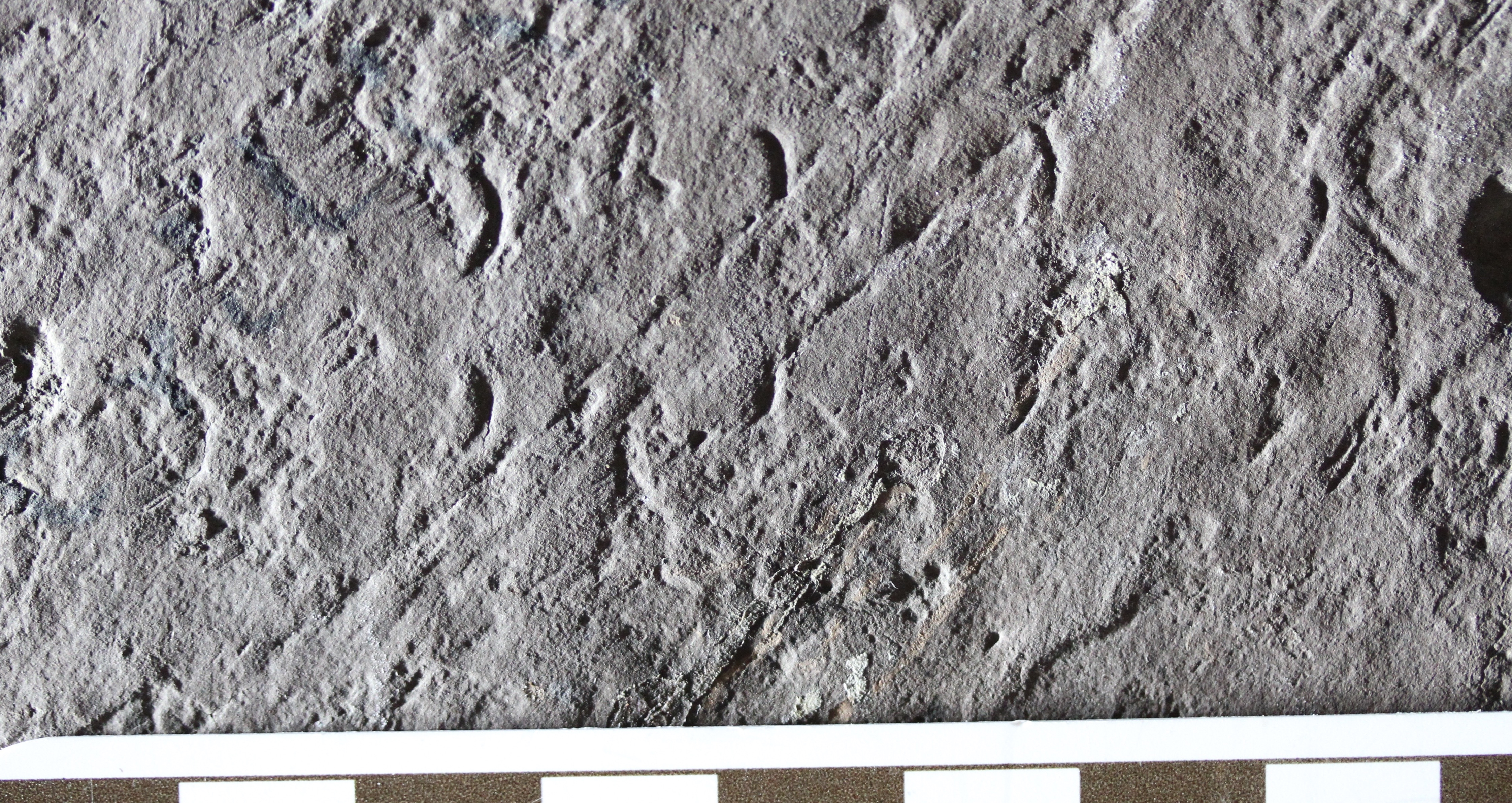 Fossil insect trackway